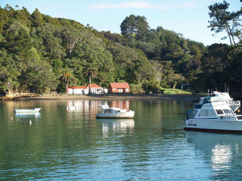 Boats in Leigh Harbour, looking at the old fisherman batches in Fisherman Cove, New Zealand.